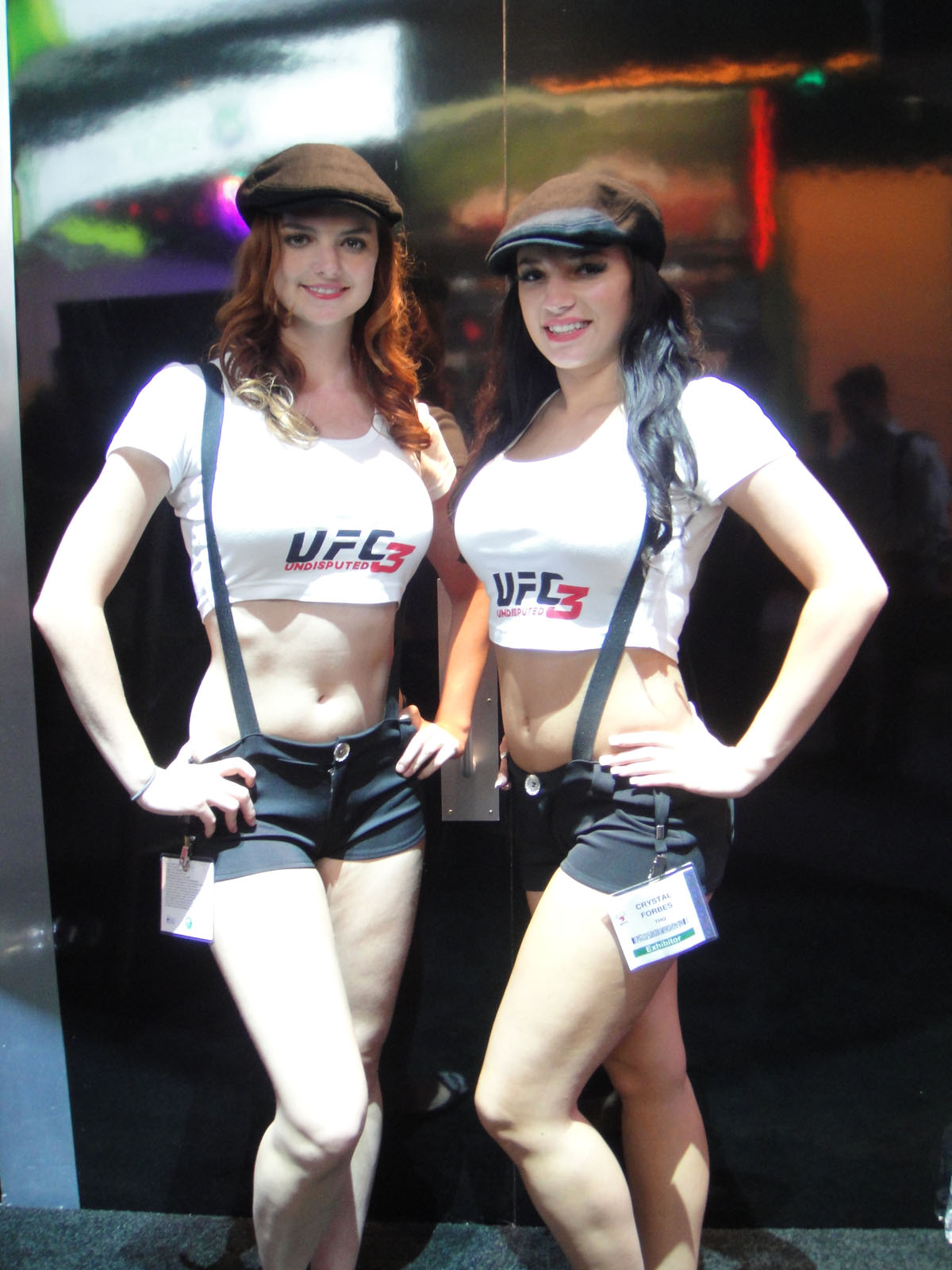 photo 2011 taken by Doug Kline If you're interested in higher resolution versions of my images, contact me via my profile page.